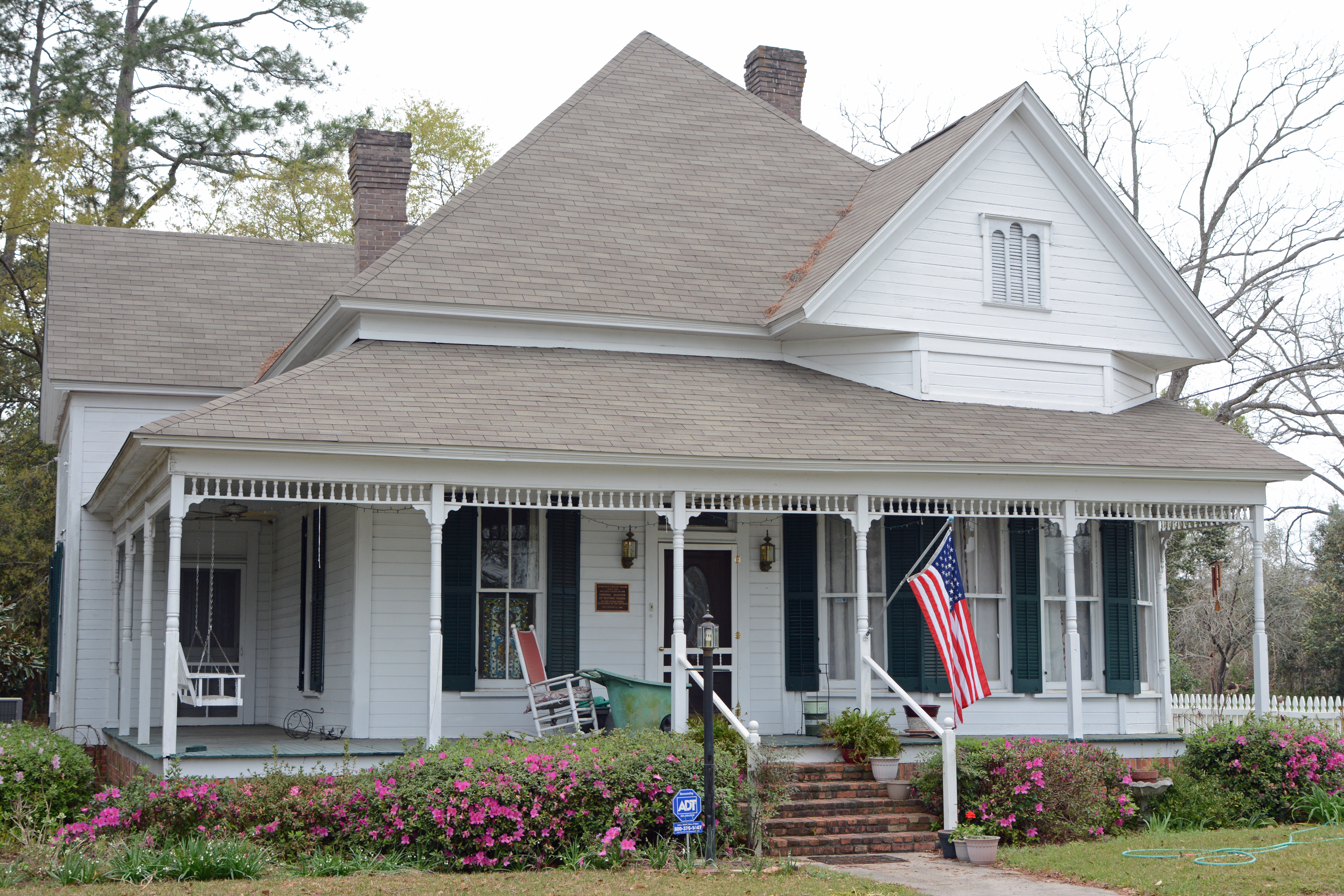 William G. Harrison House, Nashculle, Georgia, U.S.